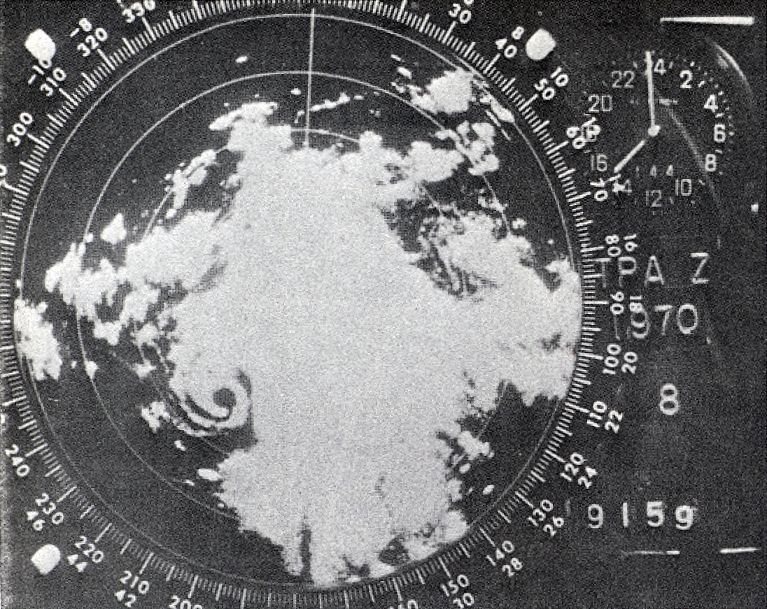 Radar image of Tropical Depression Alma